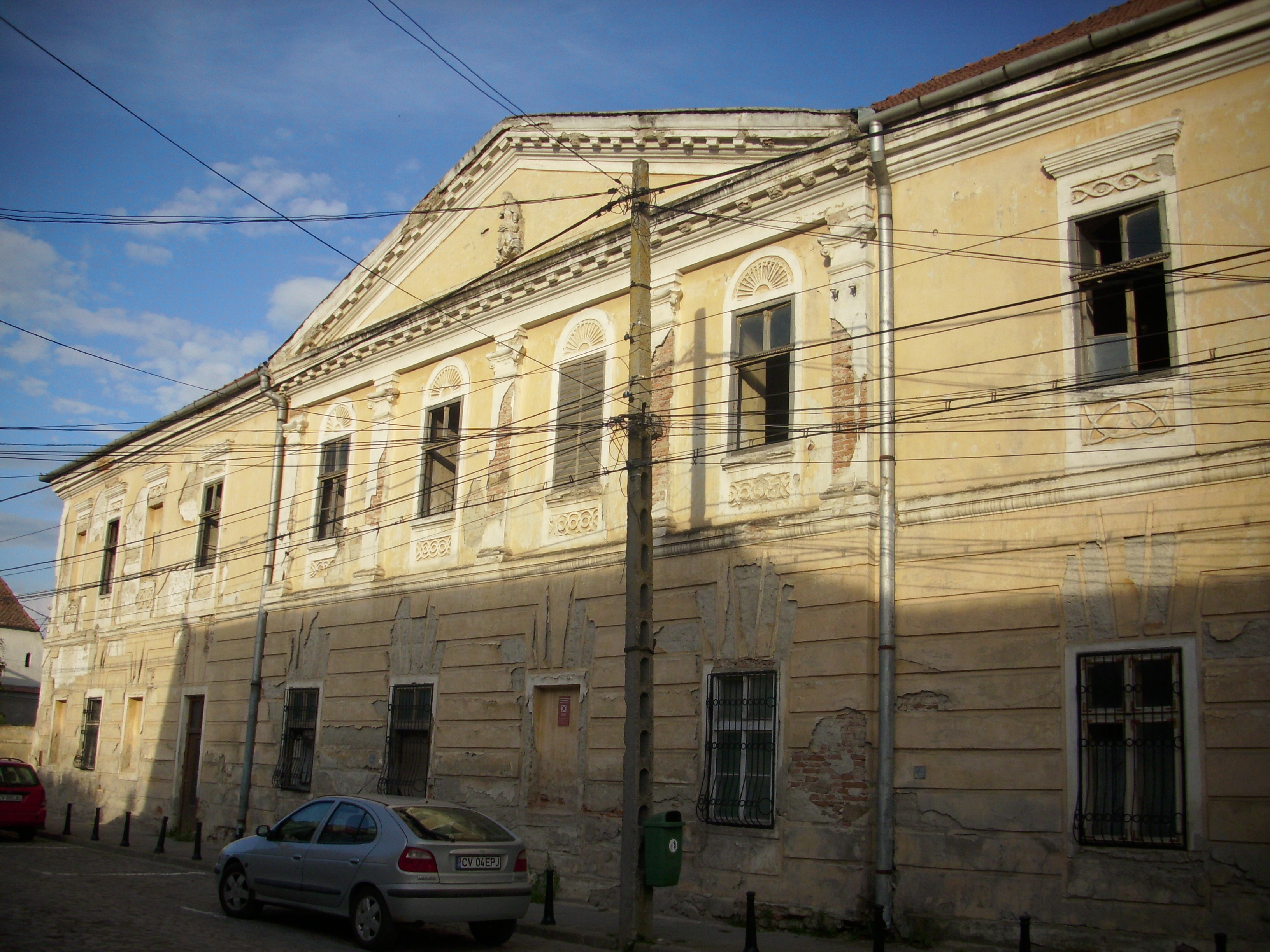 It was a cloister built in between 1740 and 1828, but now it's abandoned and no one use it. 02